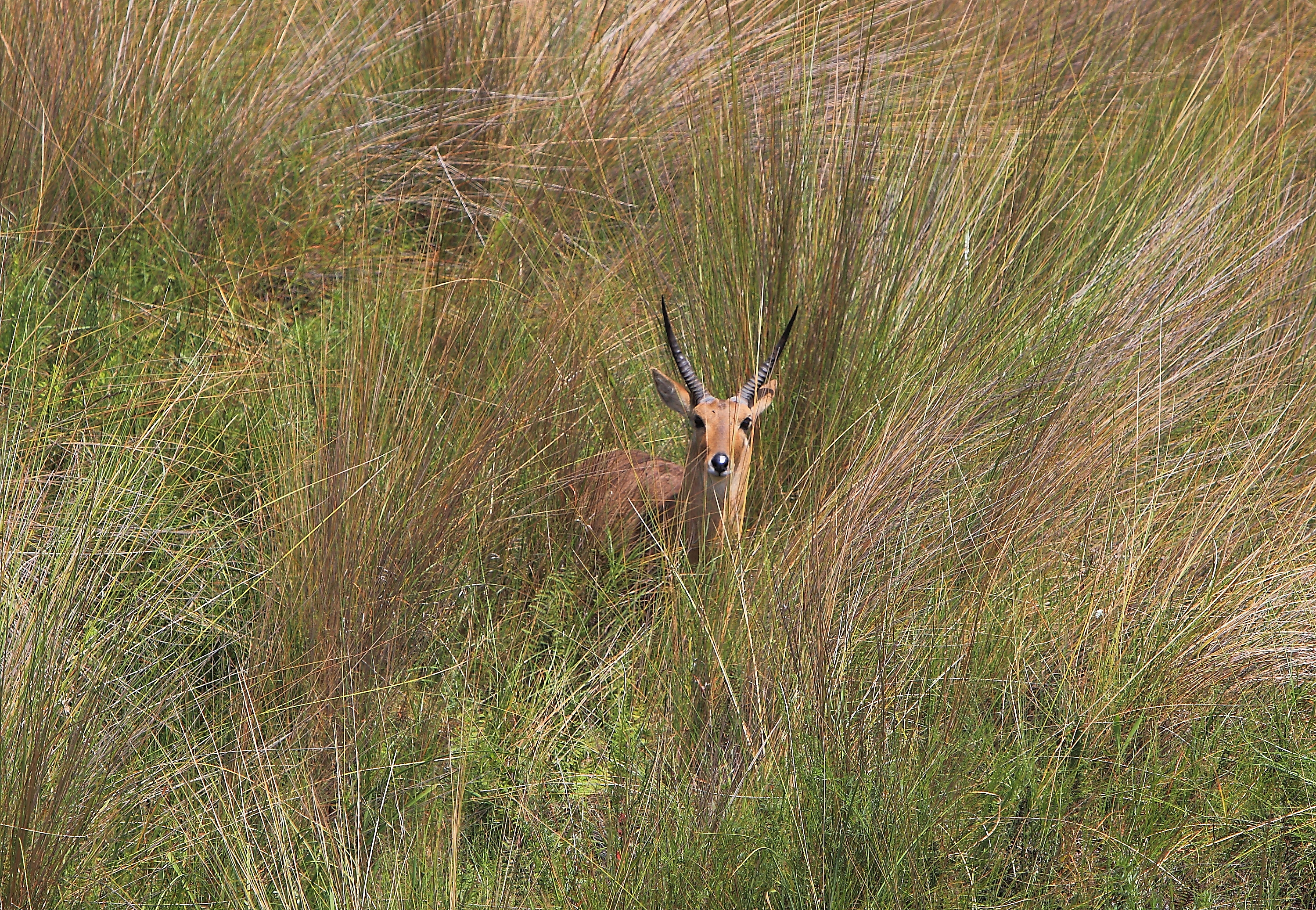 The Southern Reedbuck, or Common Reedbuck (Redunca arundinum) is an antelope, found in Angola, Zimbabwe, Zambia, Mozambique and northern South Africa. Sigurwana Lodge, Soutpansberg, Limpopo, South Africa